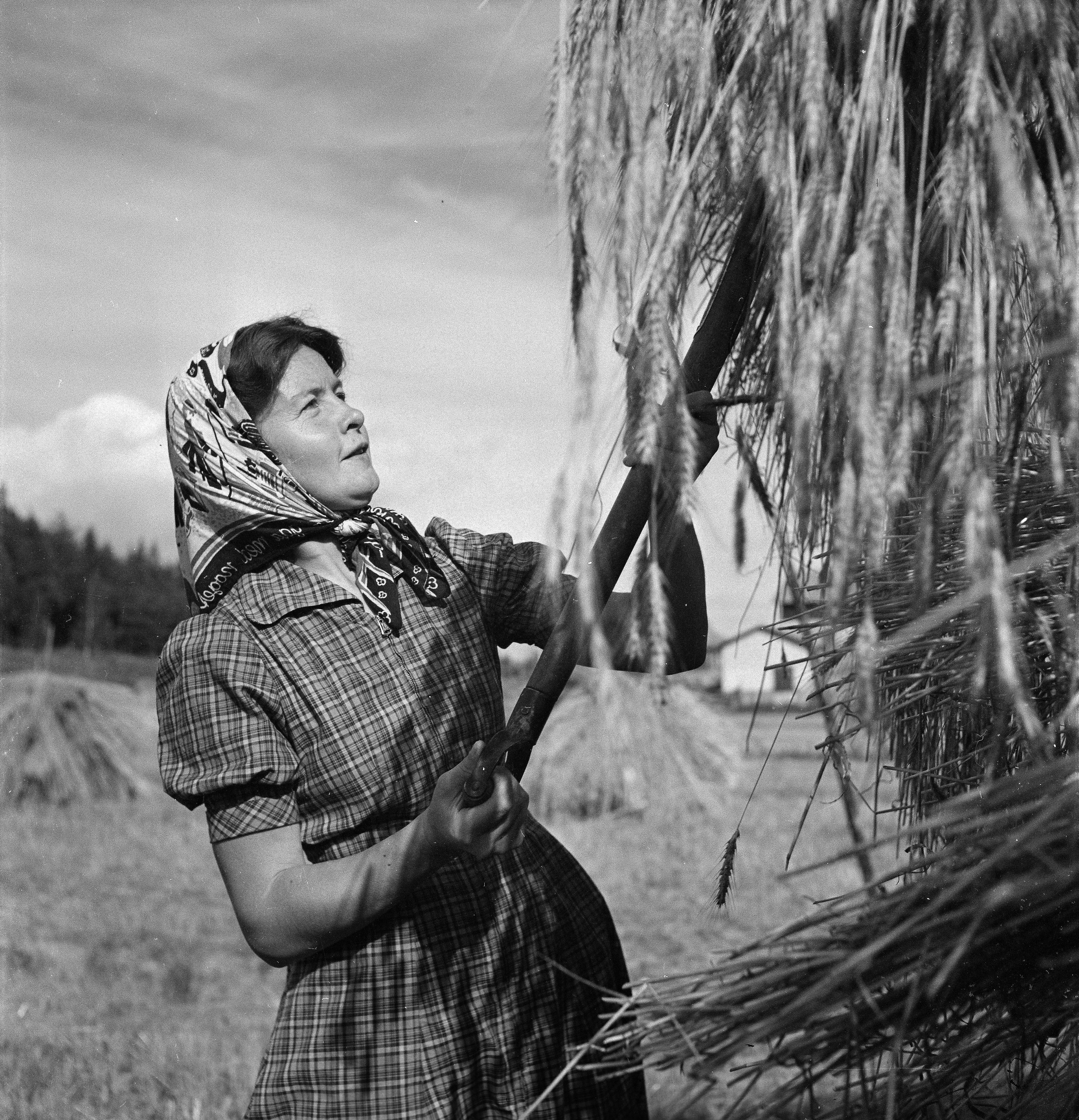 Author Sally Salminen working with rye crops in Sipoo.